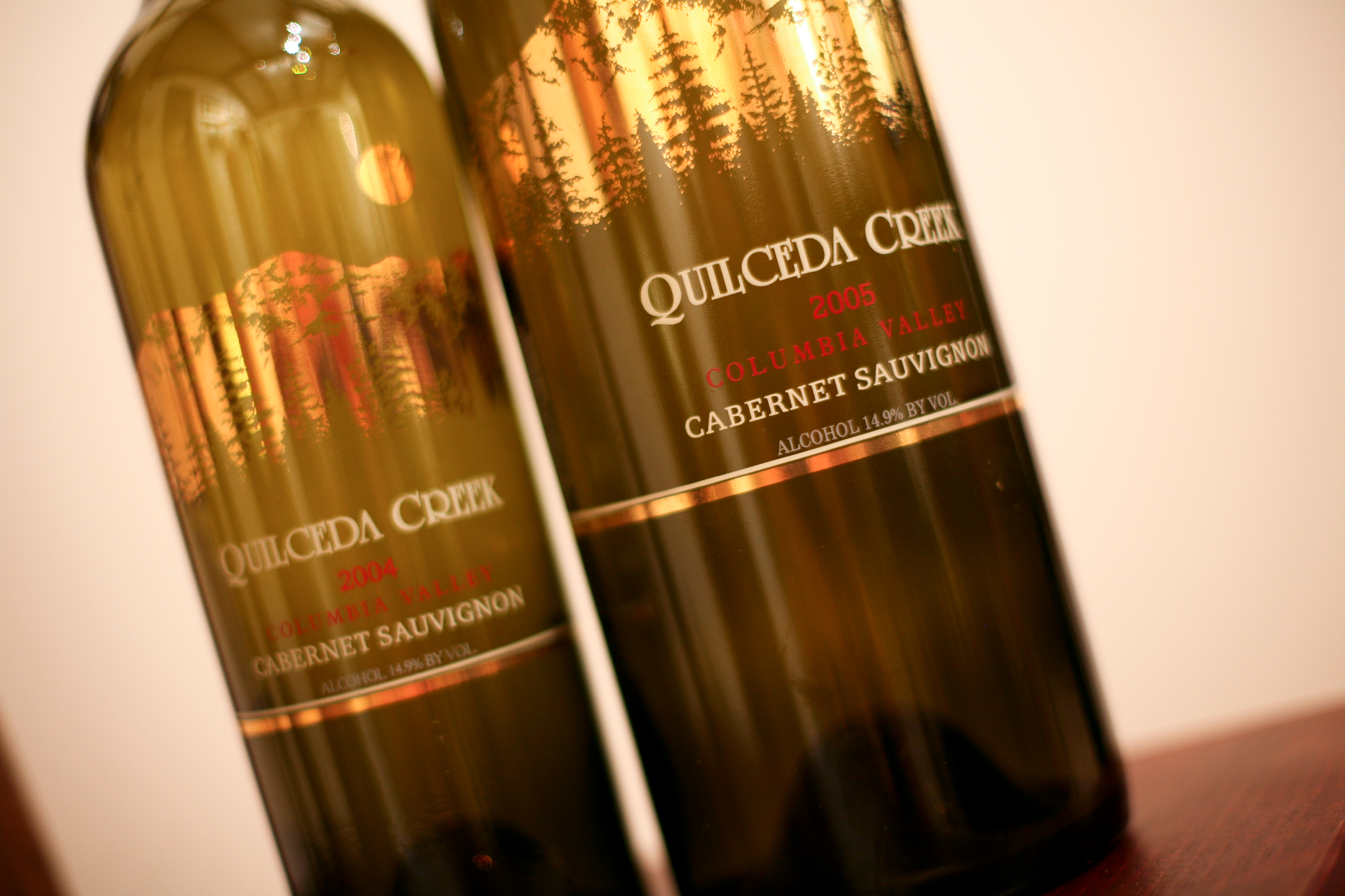 Washington winery Quilceda Creek 2005 and 2004 Cabernet Sauvignon.